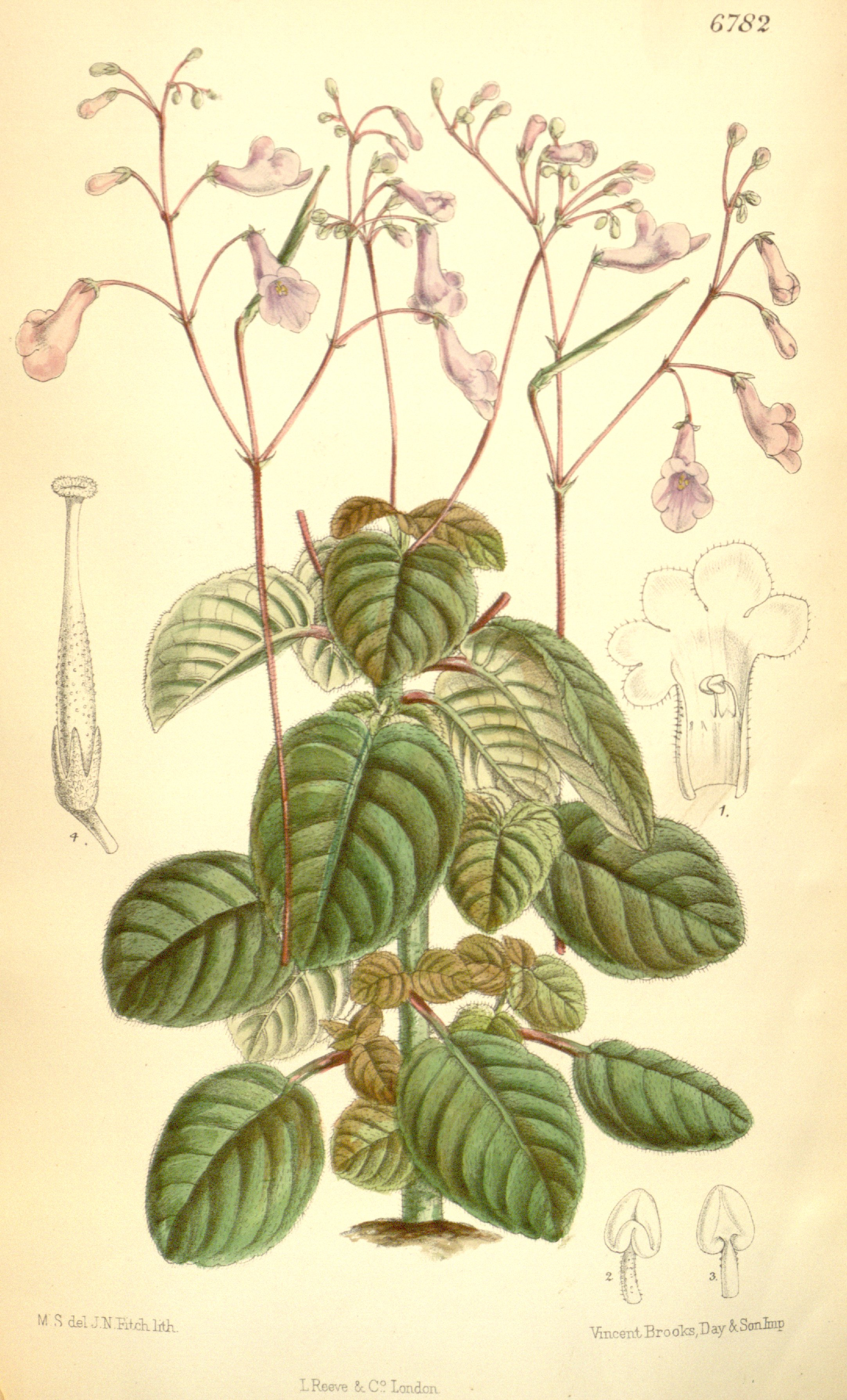 Streptocarpus kirkii, Bot. Mag. 110: t. 6782. 1884.